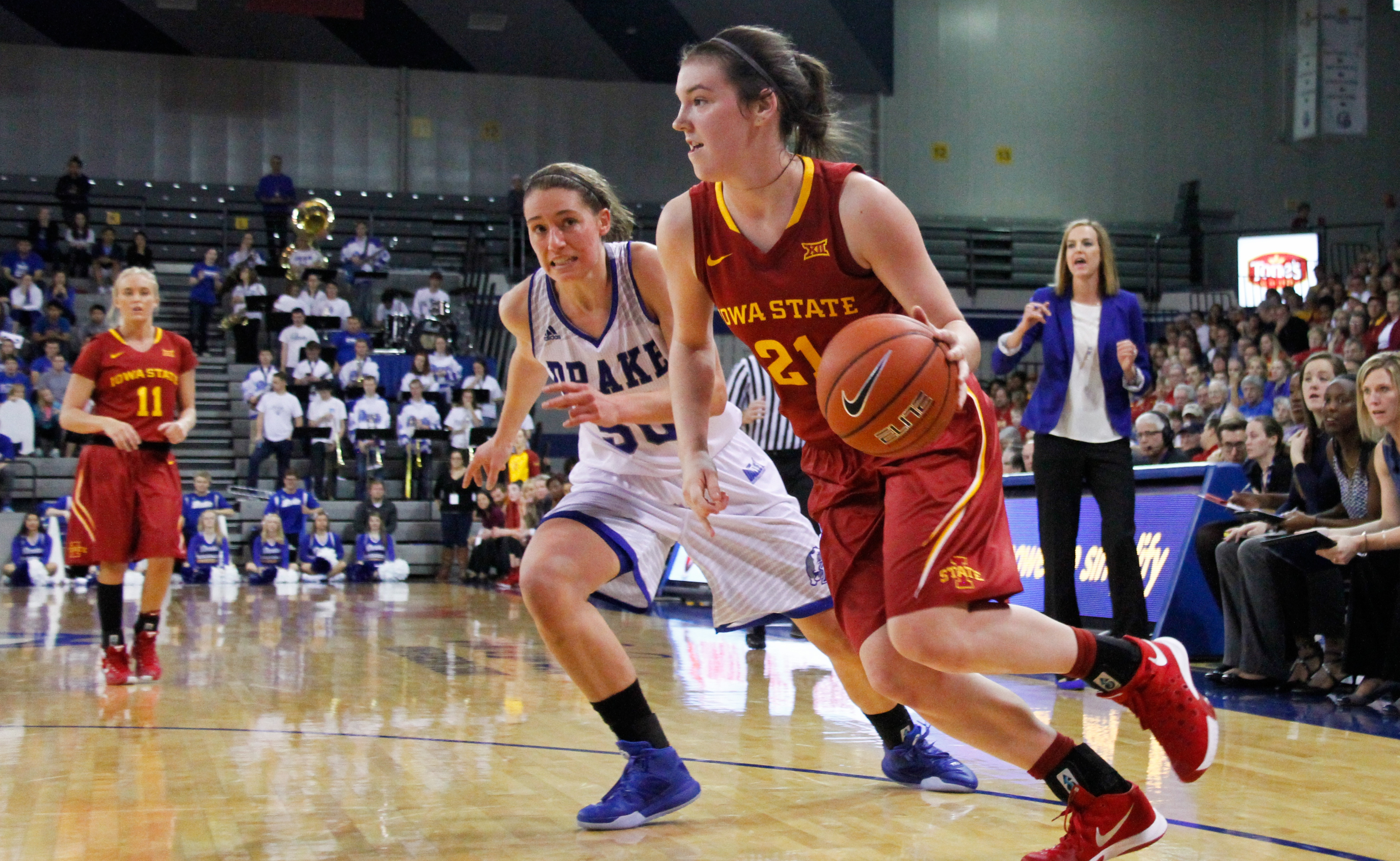 Iowa State women's basketball player Bridget Carleton in a game at Drake University on November 15, 2015.